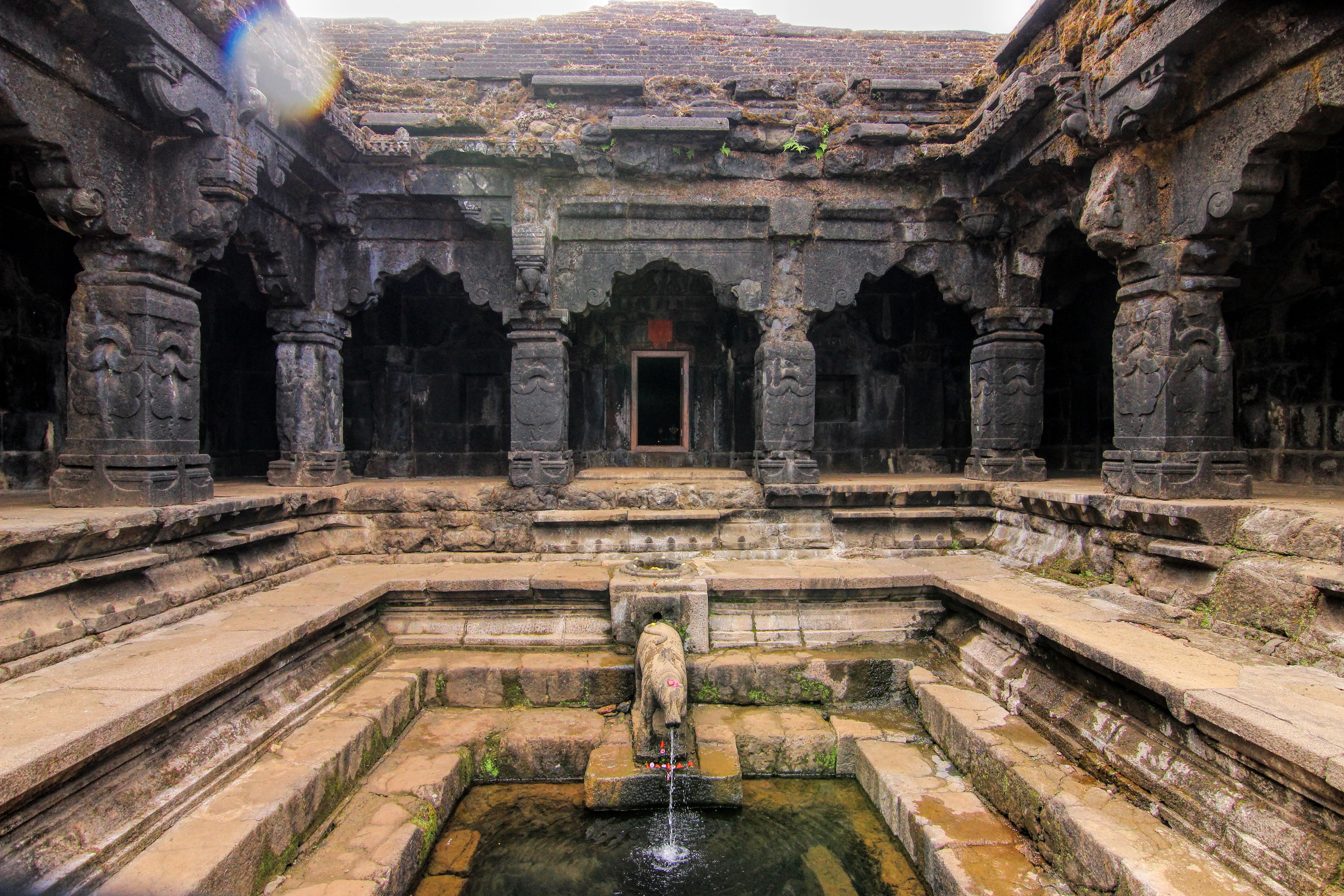 A small stream of the river flows from a cow-face (gomukh) and it falls on a water tank.